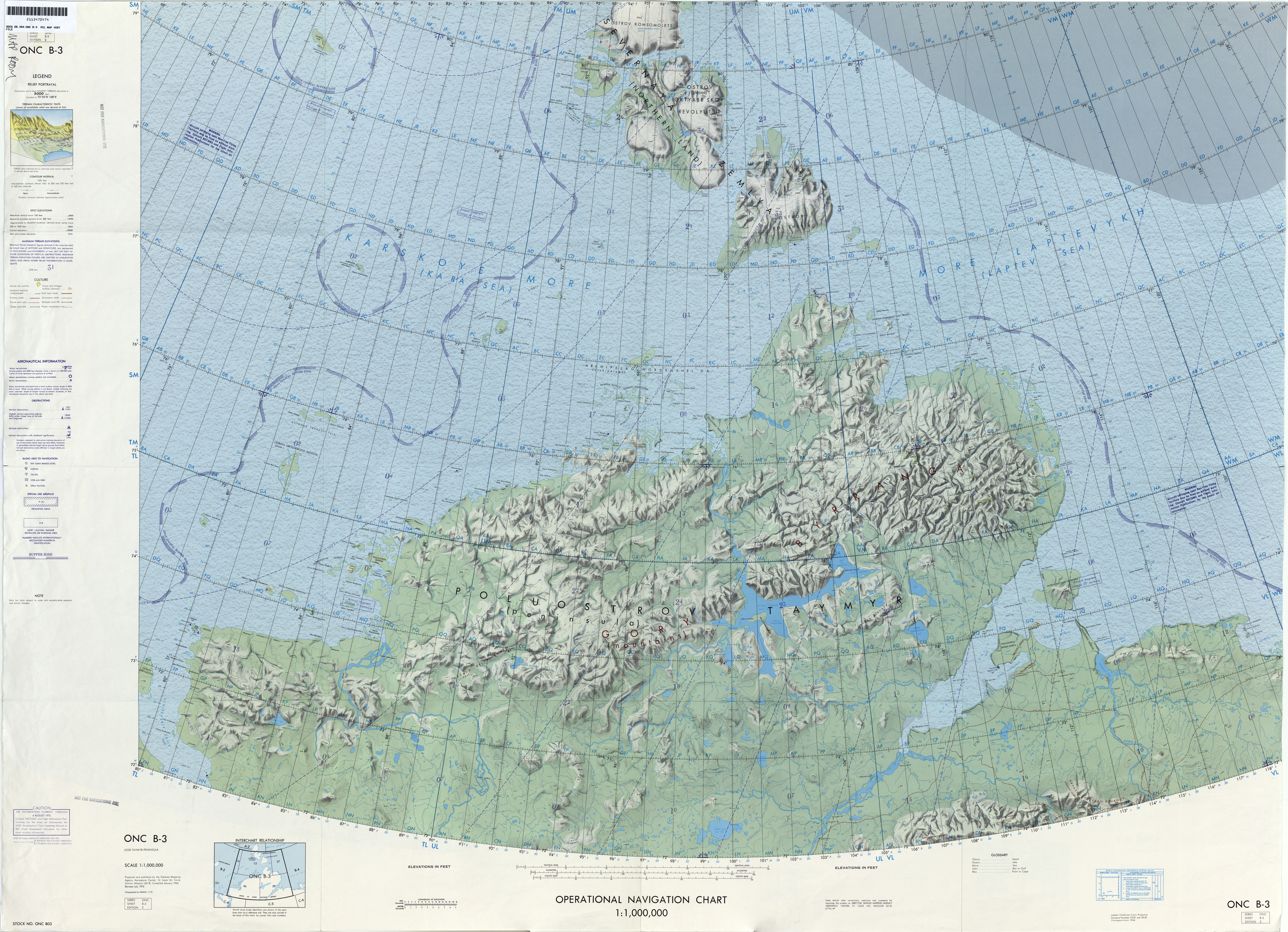 1:1,000,000 scale Operational Navigation Chart, Sheet B-3, 2nd edition. Covers Taymyr Peninsula (U.S.S.R.). Lambert Conformal Conic Projection. Standard Parallels 73 20N and 78 40N. Center longitude 99 15E.